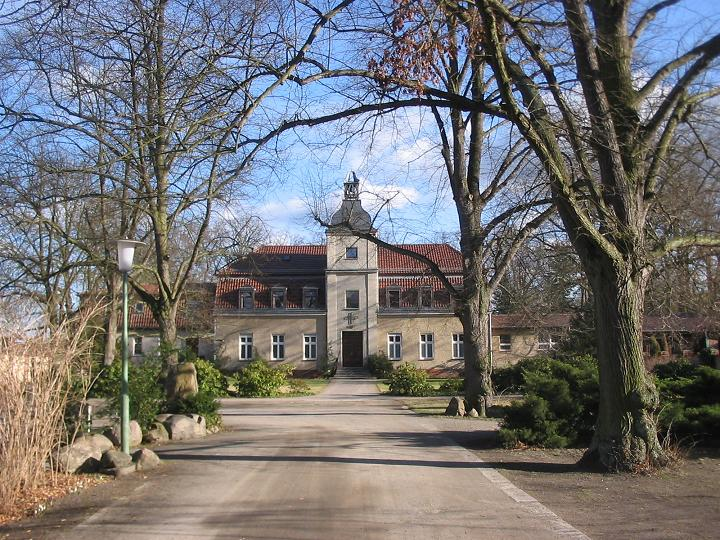 Kloster Alexanderdorf – Benediktinerinnenabtei St. Gertrud, a monastery for women in Kummersdorf-Alexanderdorf, part of the municipality Am Mellensee in the Teltow-Fläming district of Brandenburg, Germany. The Benedictine nunnery was founded in 1934 and was elevated in 1984 to an abbey.